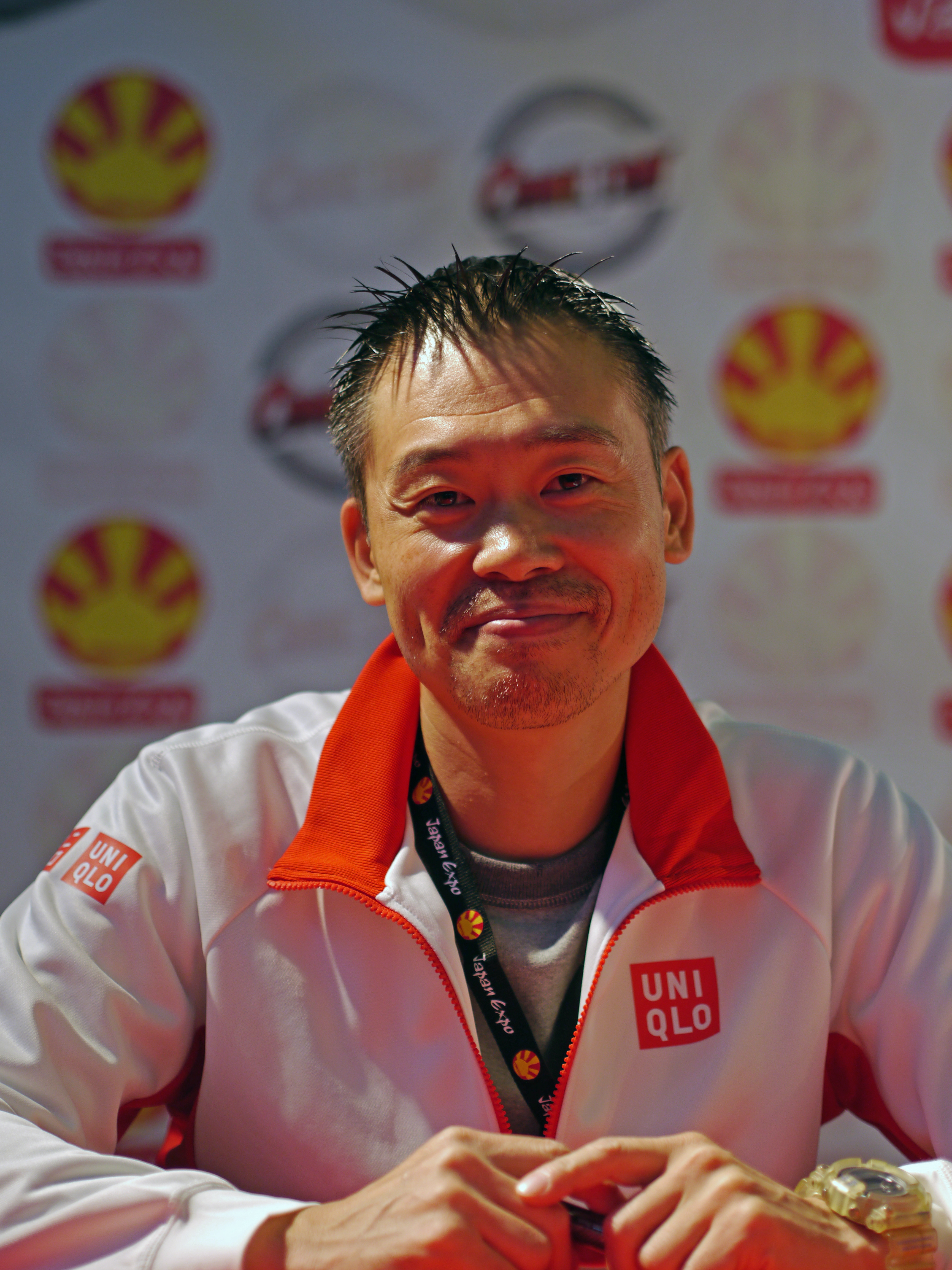 Japan Expo Festival, 13th impact